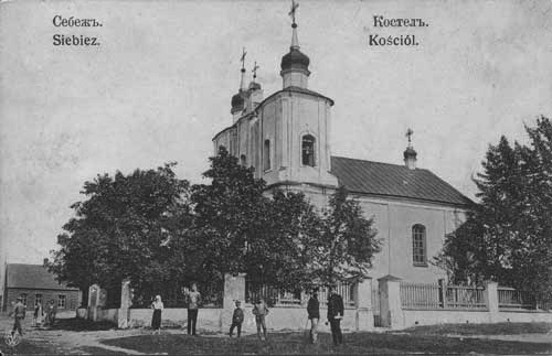 Former Holy Trinity Roman Catholic church in Sebezh, Russia (Pre-1917 postcard)